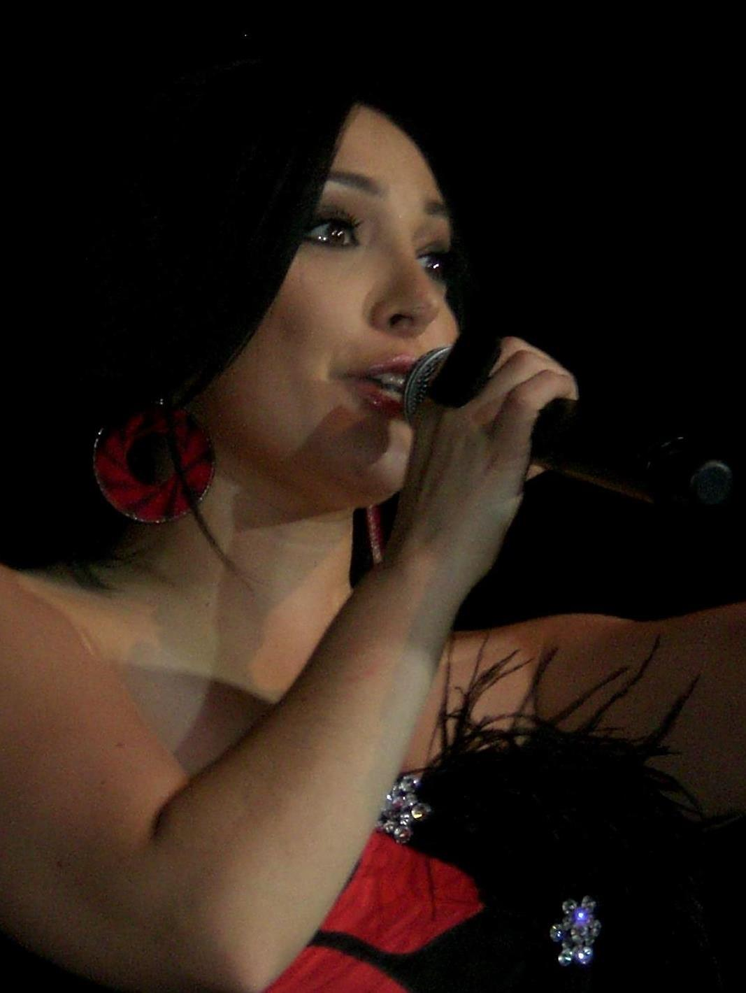 Myriam Montemayor Cruz, Mexican recording artist, known for winning the first generation of La Academia